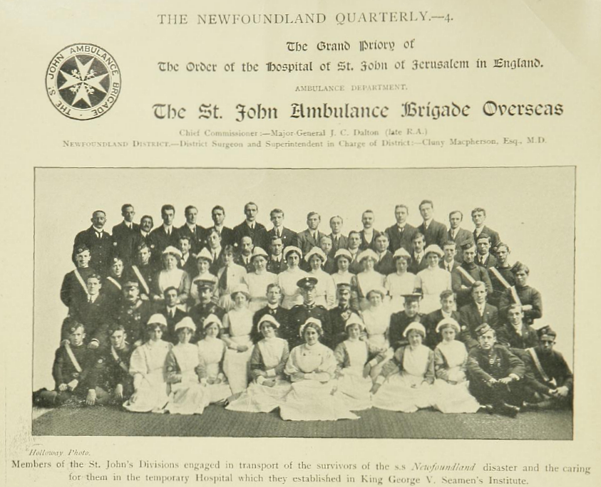 Members of St. John's Brigade involved in SS Newfoundland rescue operation.